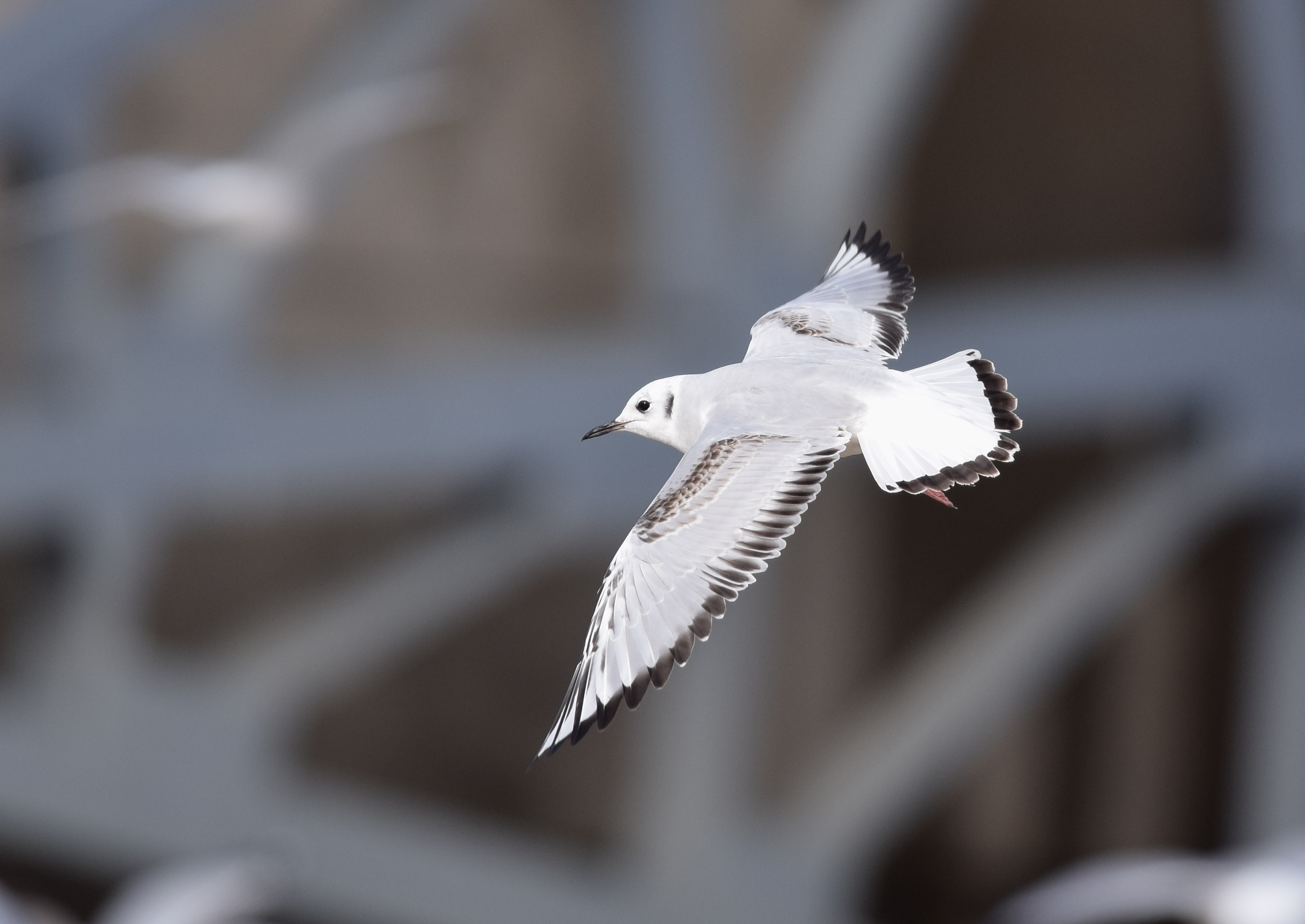 Bonaparte's Gull (works)